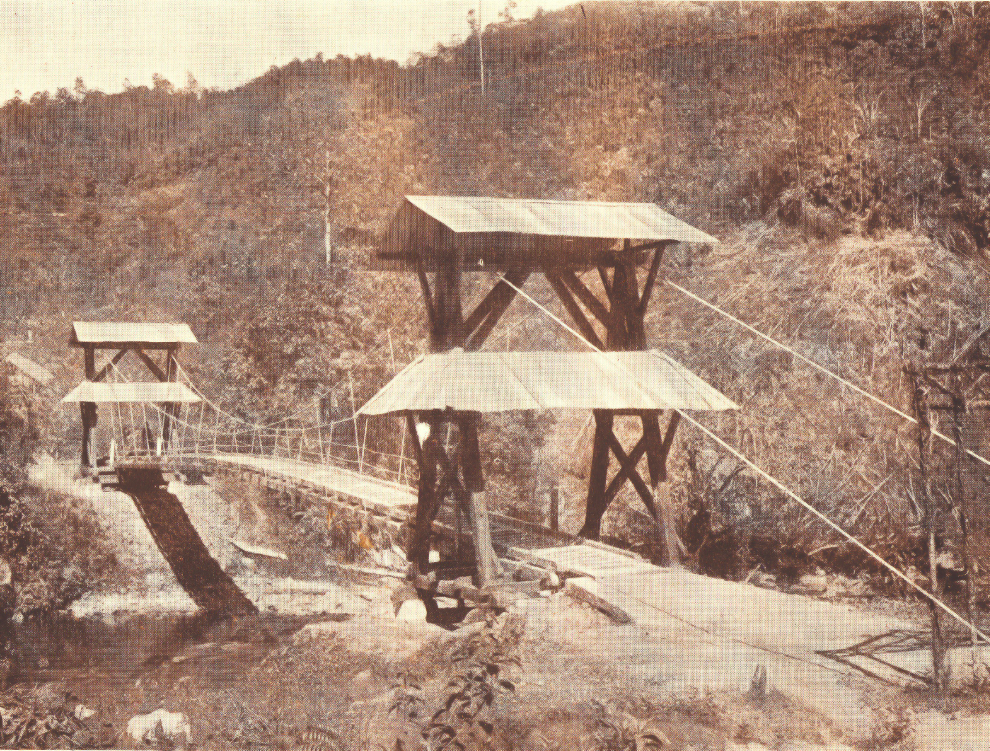 Hangbrug over de Aick Raisan